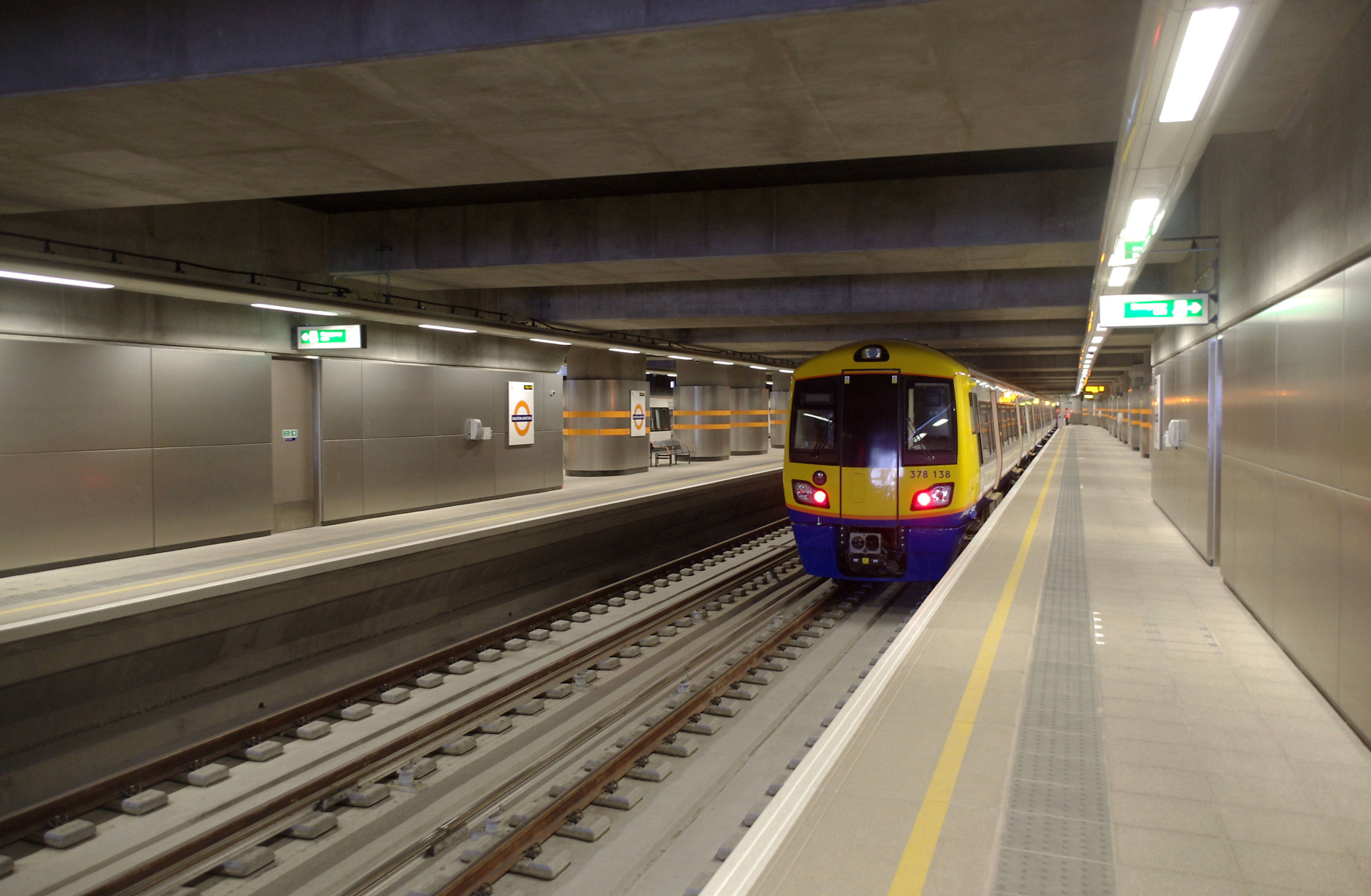 London Overground unit 378138 stands at Dalston Junction.